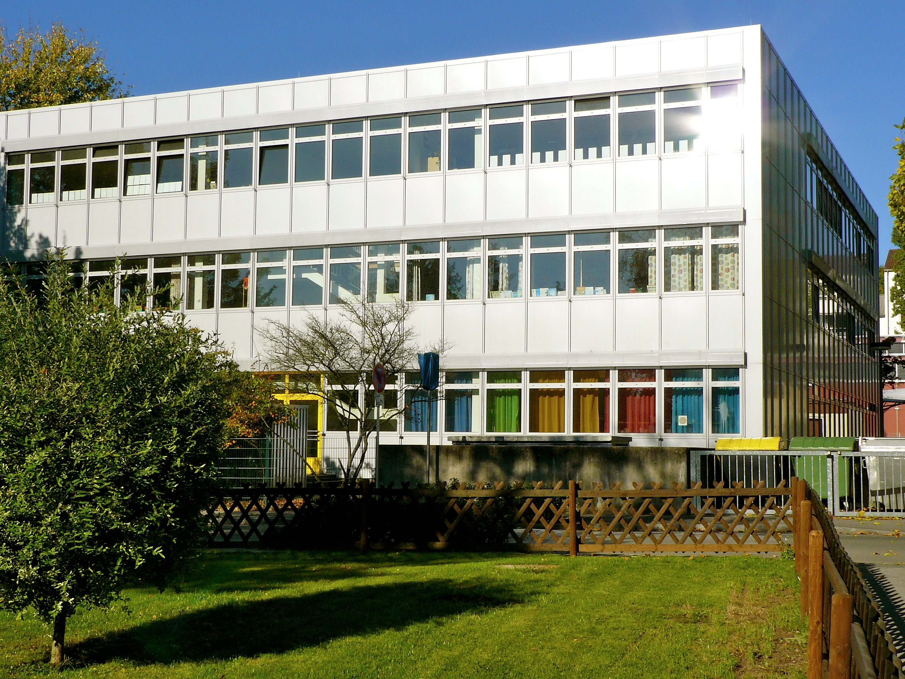 New Building of Zentgrafenschule in Frankfurt-Seckbach, Hesse, Germany